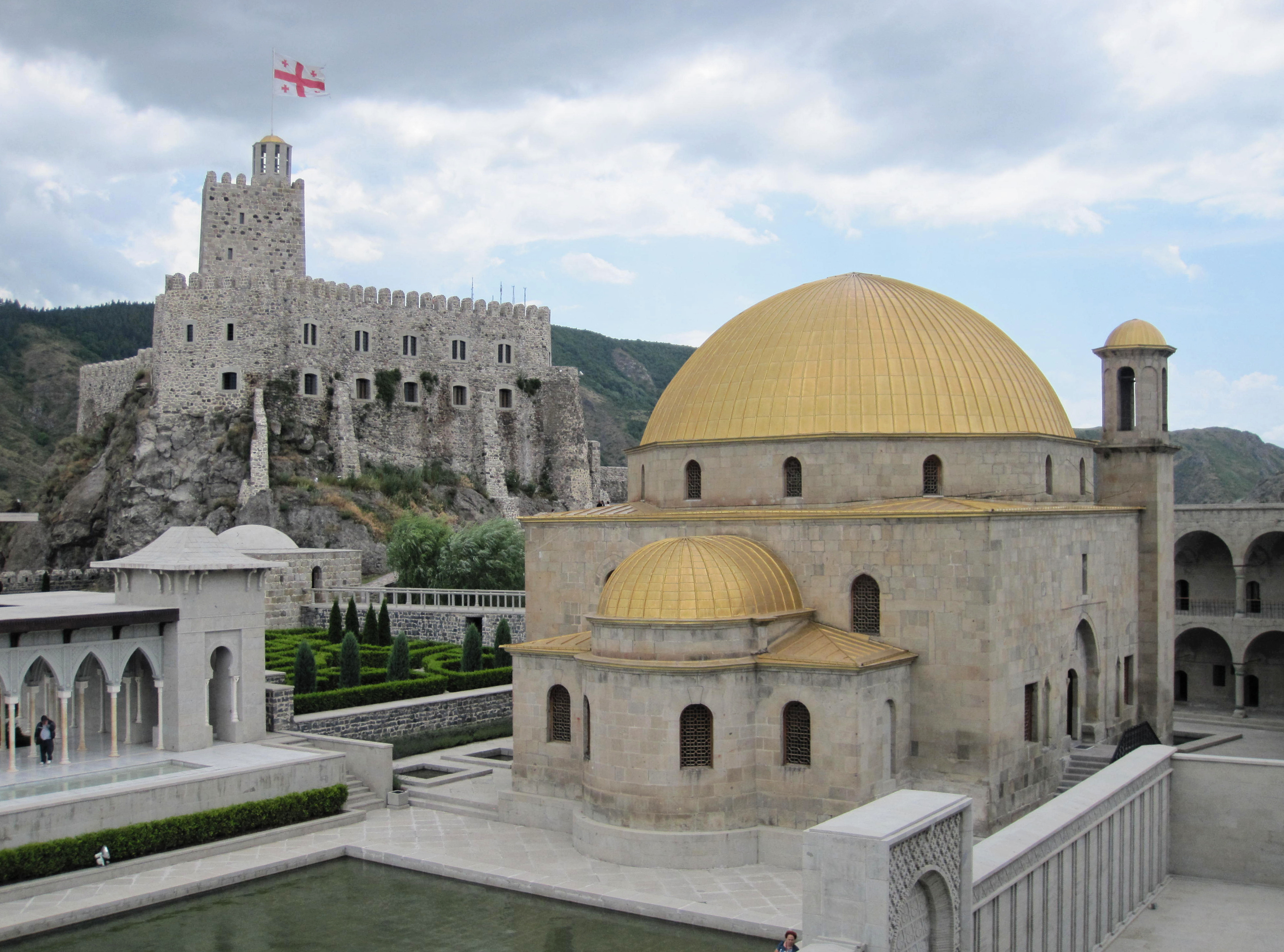 Rabati, Akhaltsikhe Fortress Museum, Georgia